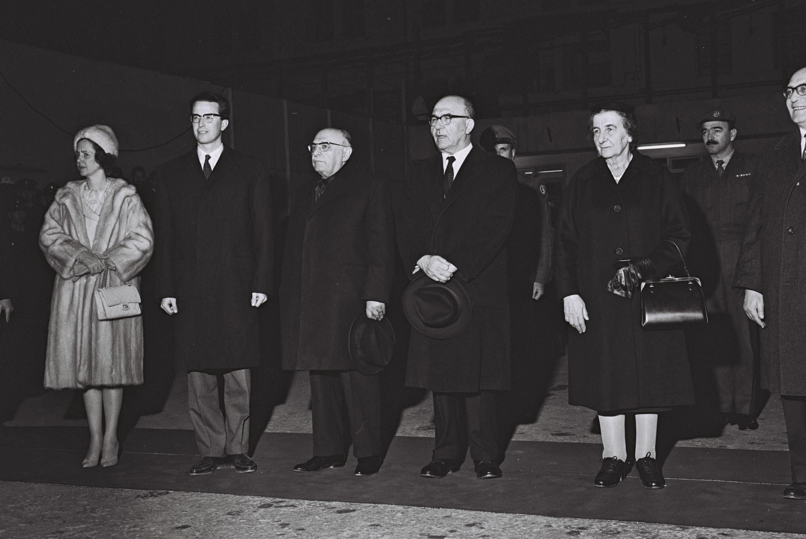 Parting ceremony for Baudouin, King of Belgium, and his wife Queen Fabiola in the presence of President of Israel Zalman Shazar, Prime Minister Levi Eshkol and Minister of Foreign Affairs Golda Meir, February 16, '64.